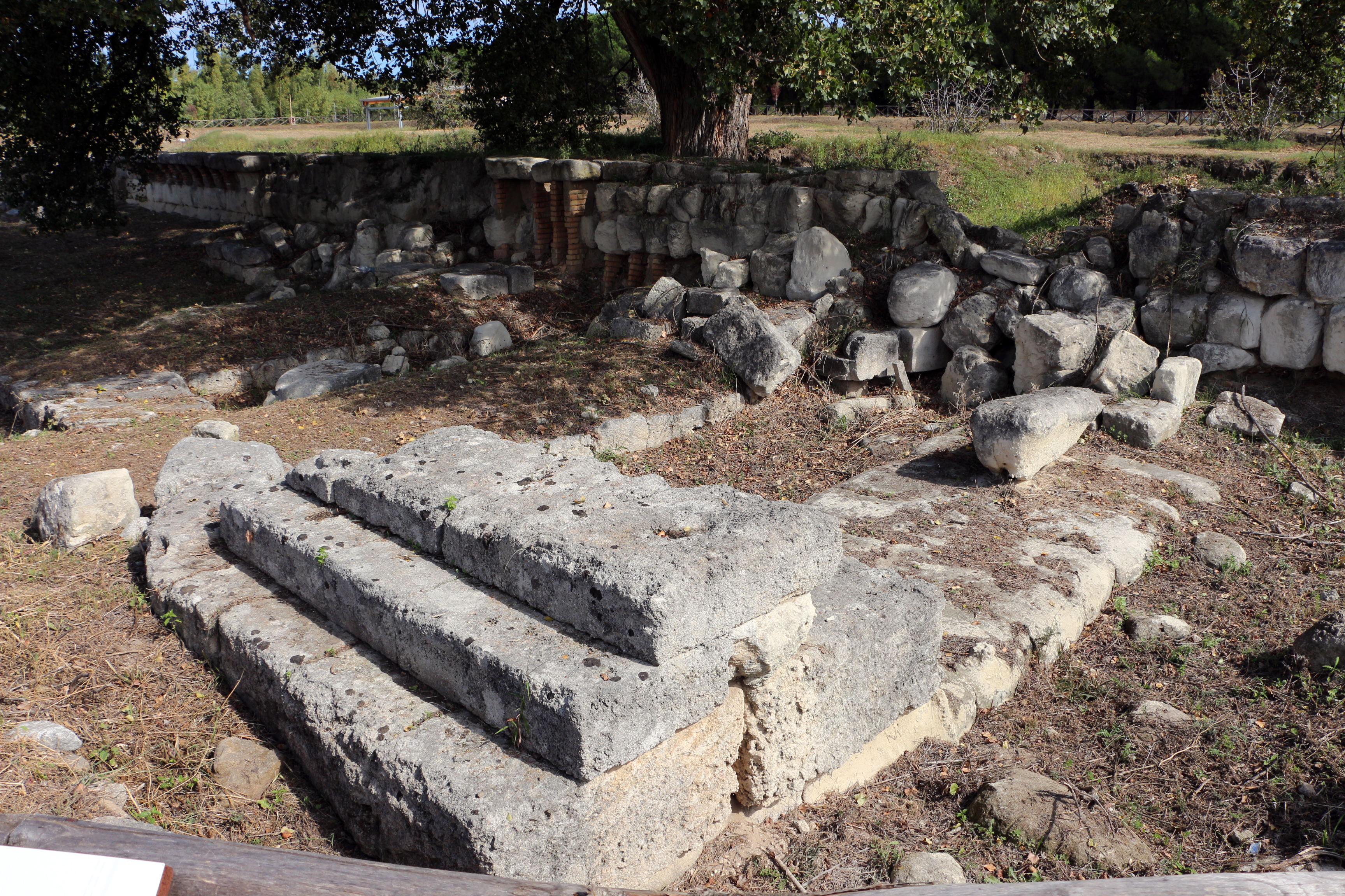 Lokroi Epizephyrioi